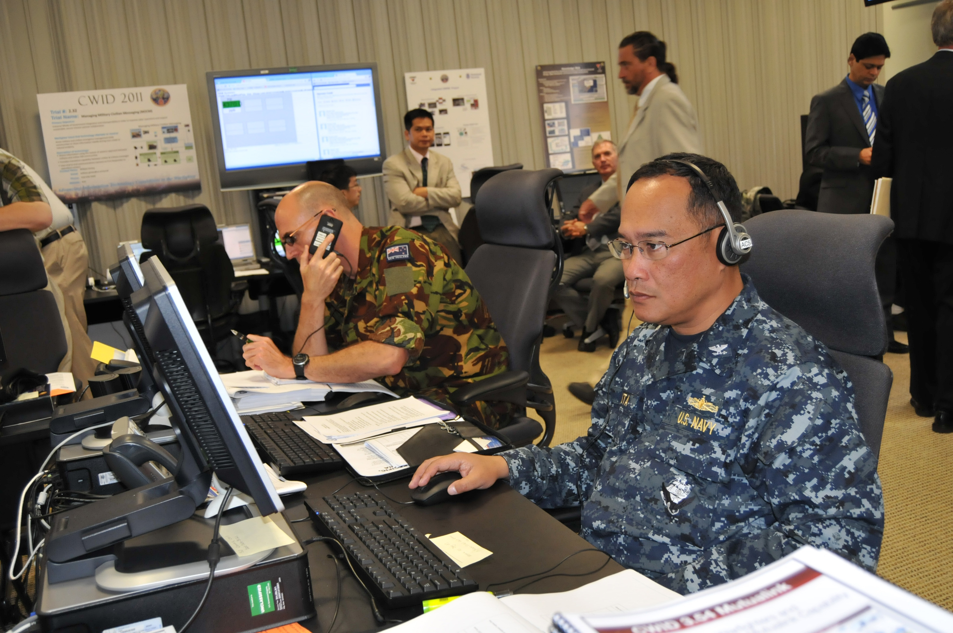 SAN DIEGO (June 15, 2011) Space and Naval Warfare Systems Command (SPAWAR) reserve component officer Capt. Dan Gruta, right, and New Zealand army Maj. Colin Huston operate the Ectocryp Black Secure Voice Gateway, version 3.29, during Coalition Warrior Interoperability Demonstration (CWID) 2011 at SPAWAR Systems Center, Pacific. CWID is an annual exercise that focuses on technology discovery, risk reduction, and interoperability. The exercise enables NATO and coalition partners to assess cutting-edge information technology under exercise conditions based on real-world-inspired warfighter and Homeland Security/Homeland Defense scenarios. (U.S. Navy photo by Rick Naystatt/Released)